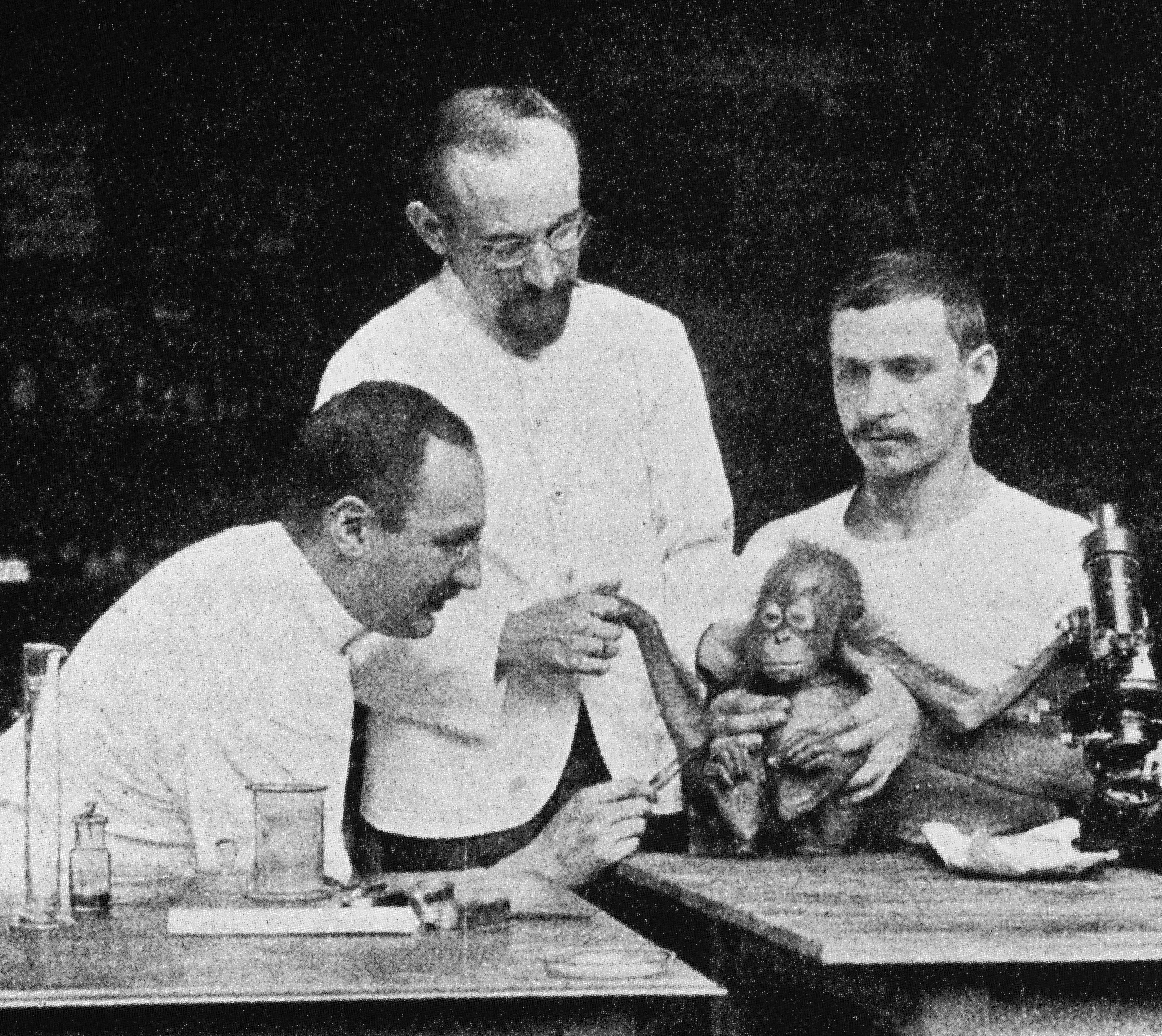 Ludwig Halberstaedter (left) and Stanislaus von Prowazek (centre) conducting an experiment on blind man (?) holding a baby orangutan during their research into cytoplasmic inclusion bodies of trachoma.